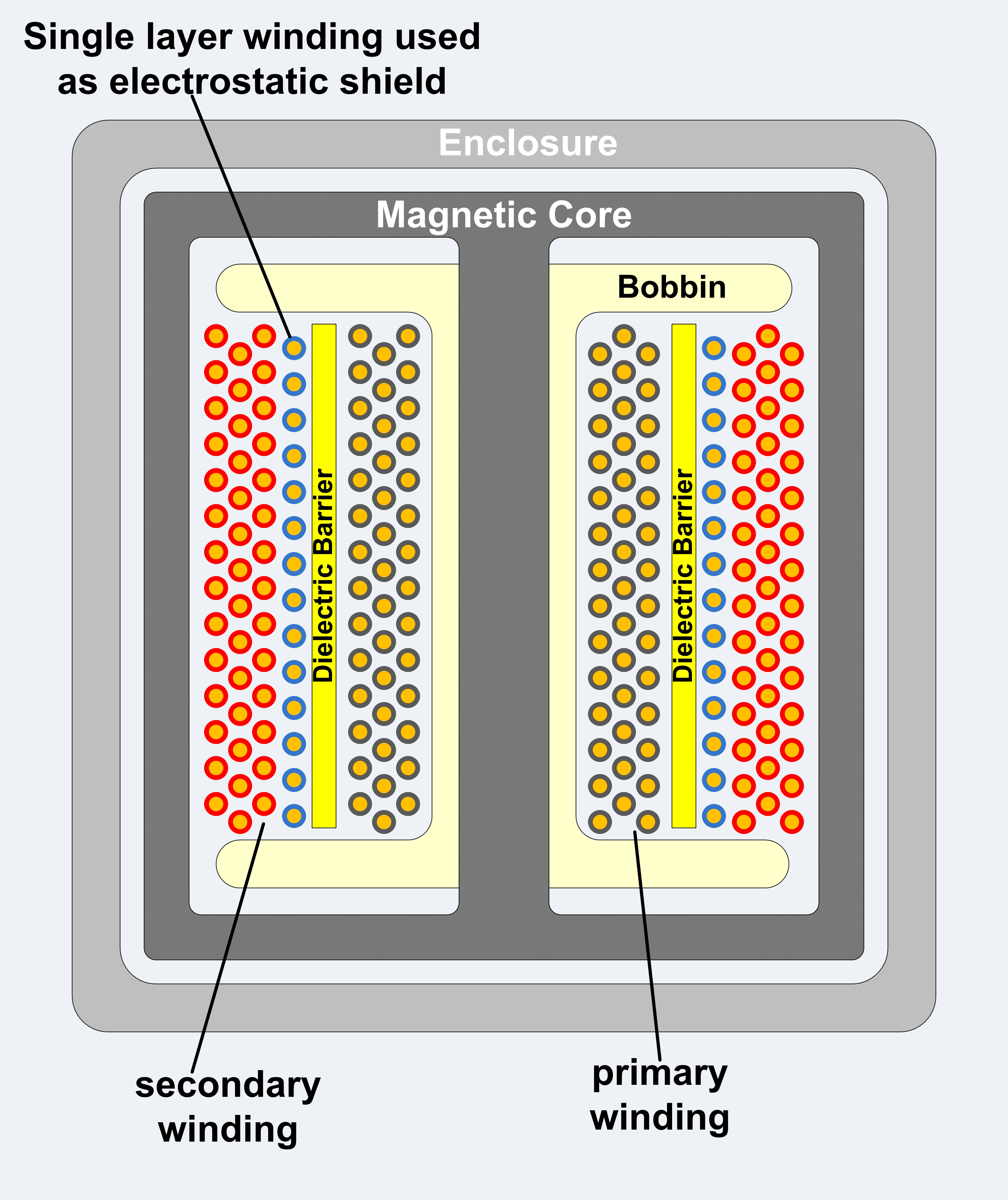 A 1:1 isolation transformer with extra insulation between primary and secondary, usually constructed from a few layers of mylar tape. Also there is an electro-static shield between primary and secondary constructed from a single (or a small number) layer with one end grounded.